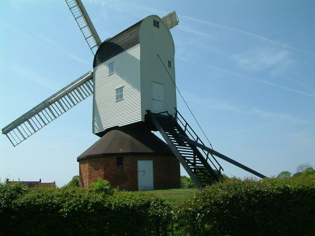 Photograph of Mountnessing windmill